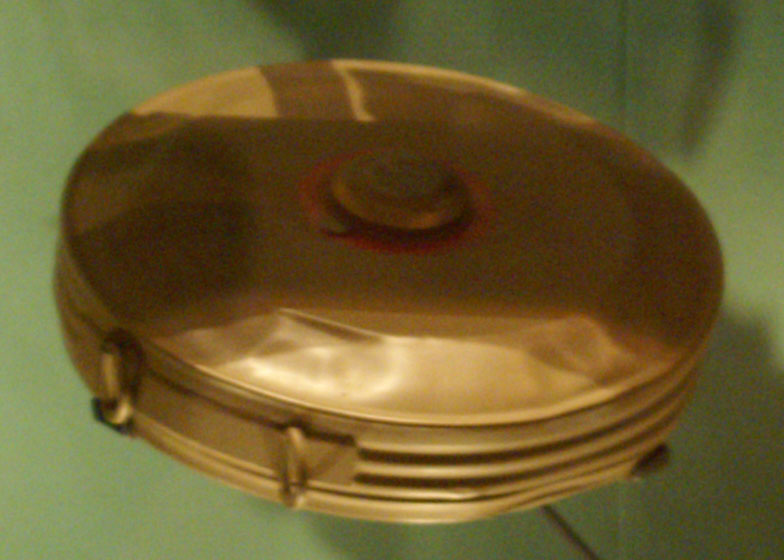 A Japanese Type 93 AT/AP mine from the Second World War, at the Imperial War Museum in London. (It is actually mislabeled in the case as a Type 99).